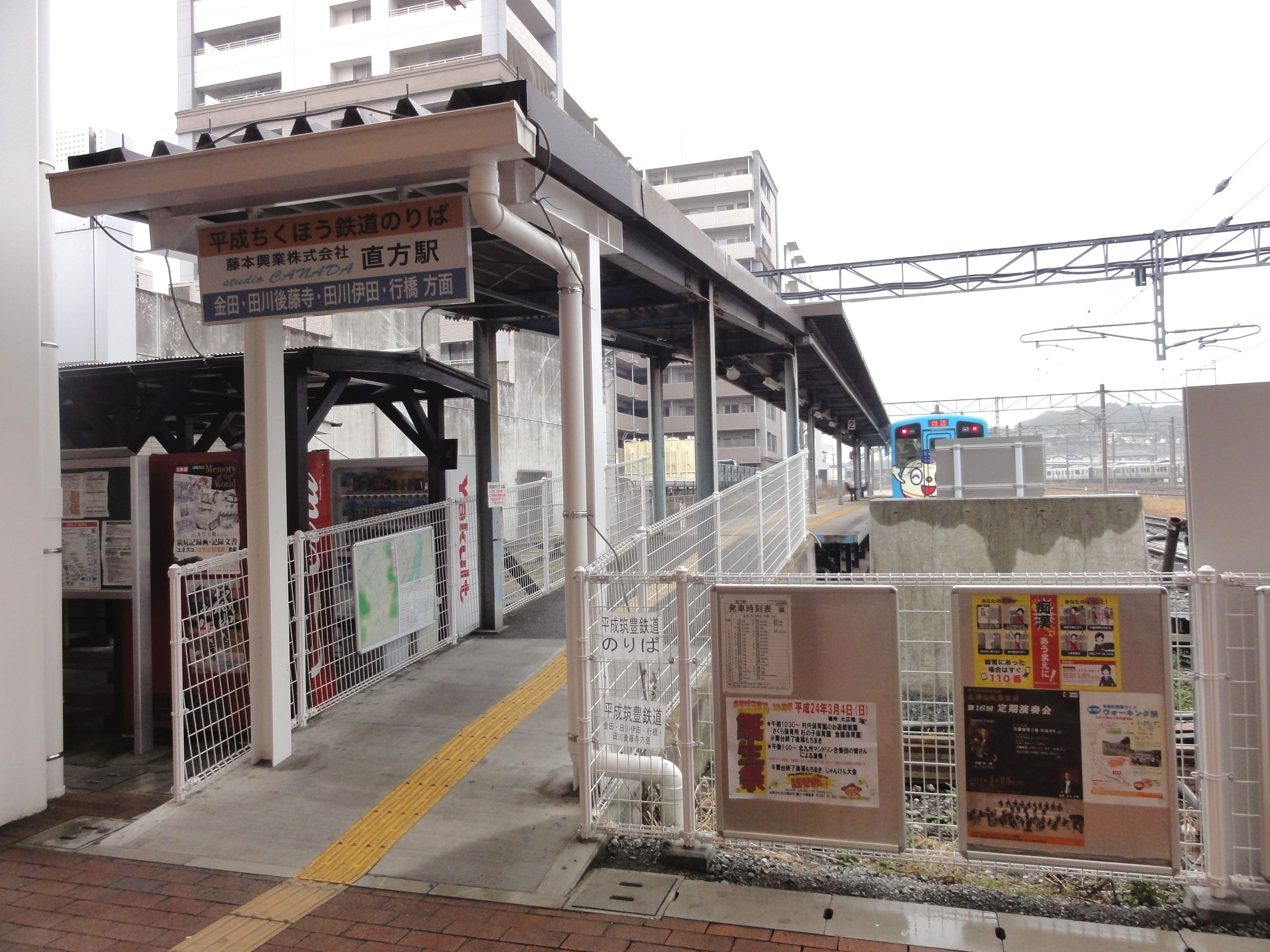 Nogata Station, Ida Line, Heisei Chikuho Railway.